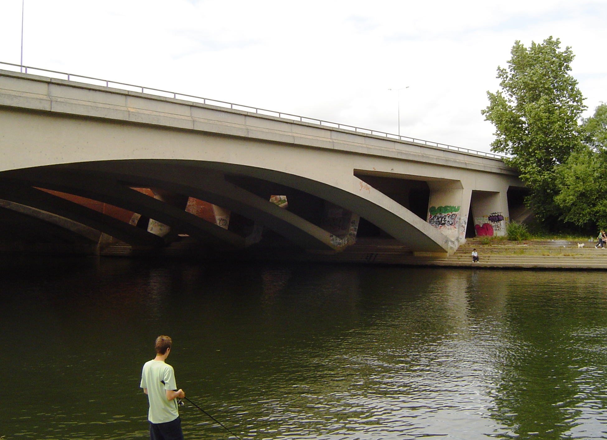 M25 Runnymede Bridge on the River Thames near Egham